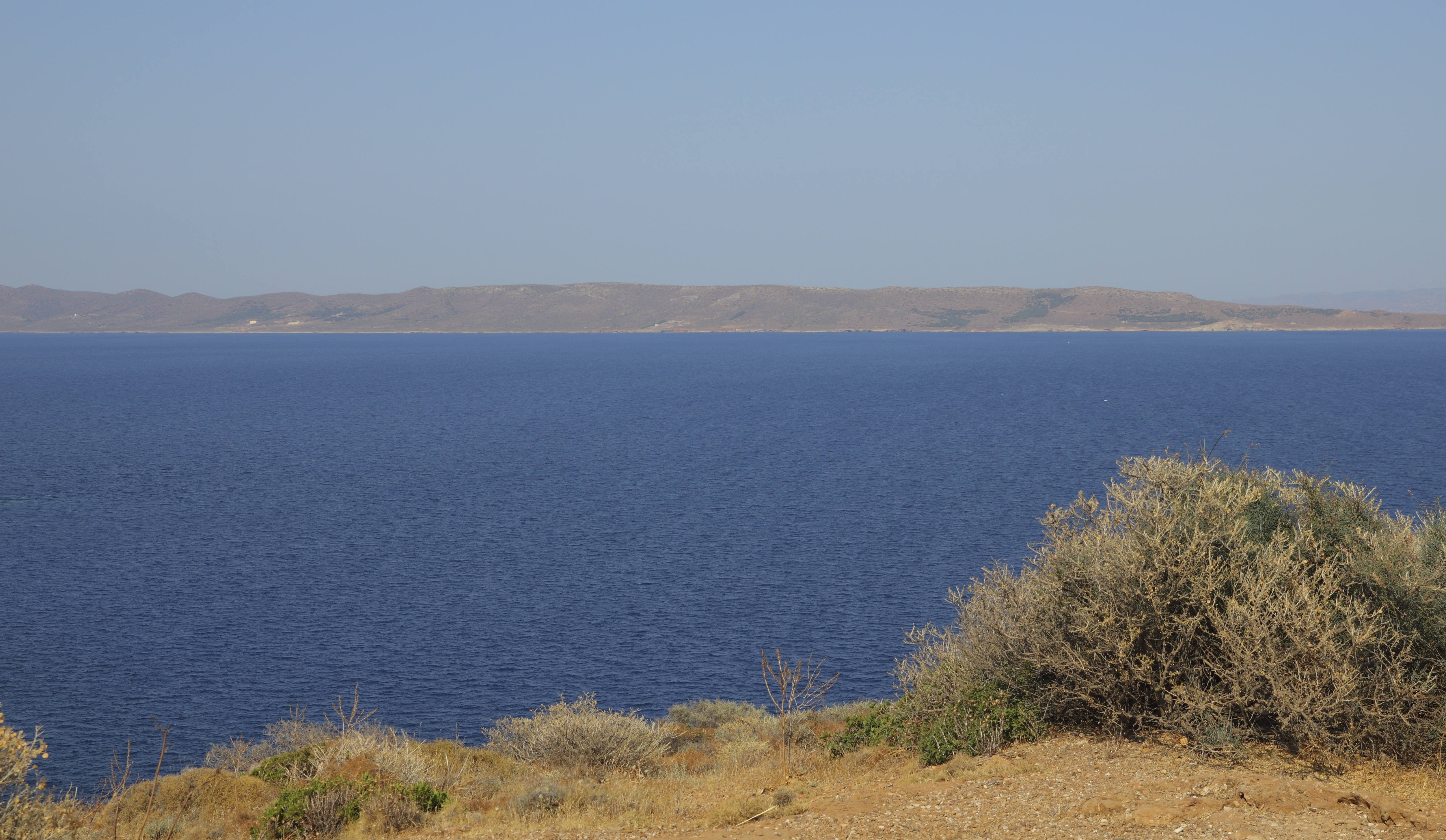 View from Cape Sounion (Attica, Greece) to Makronisos Island